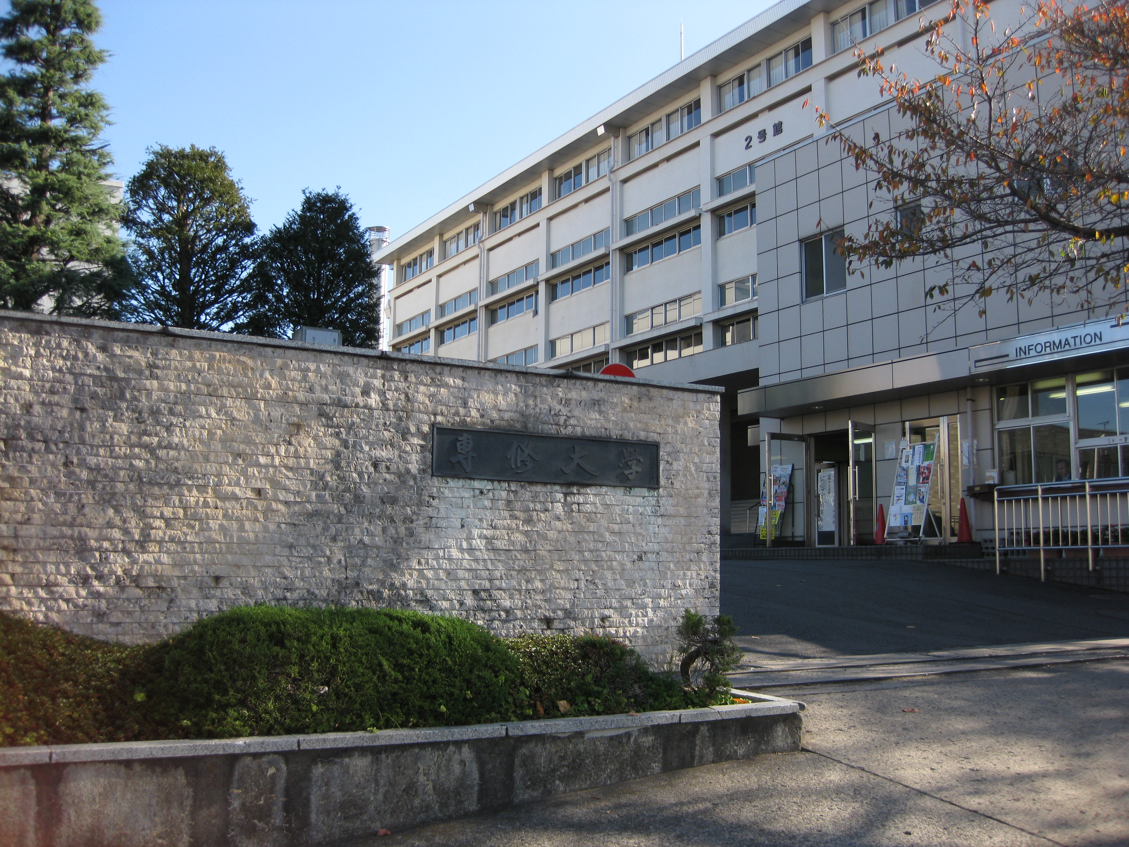 Senshu University Ikuta Campus